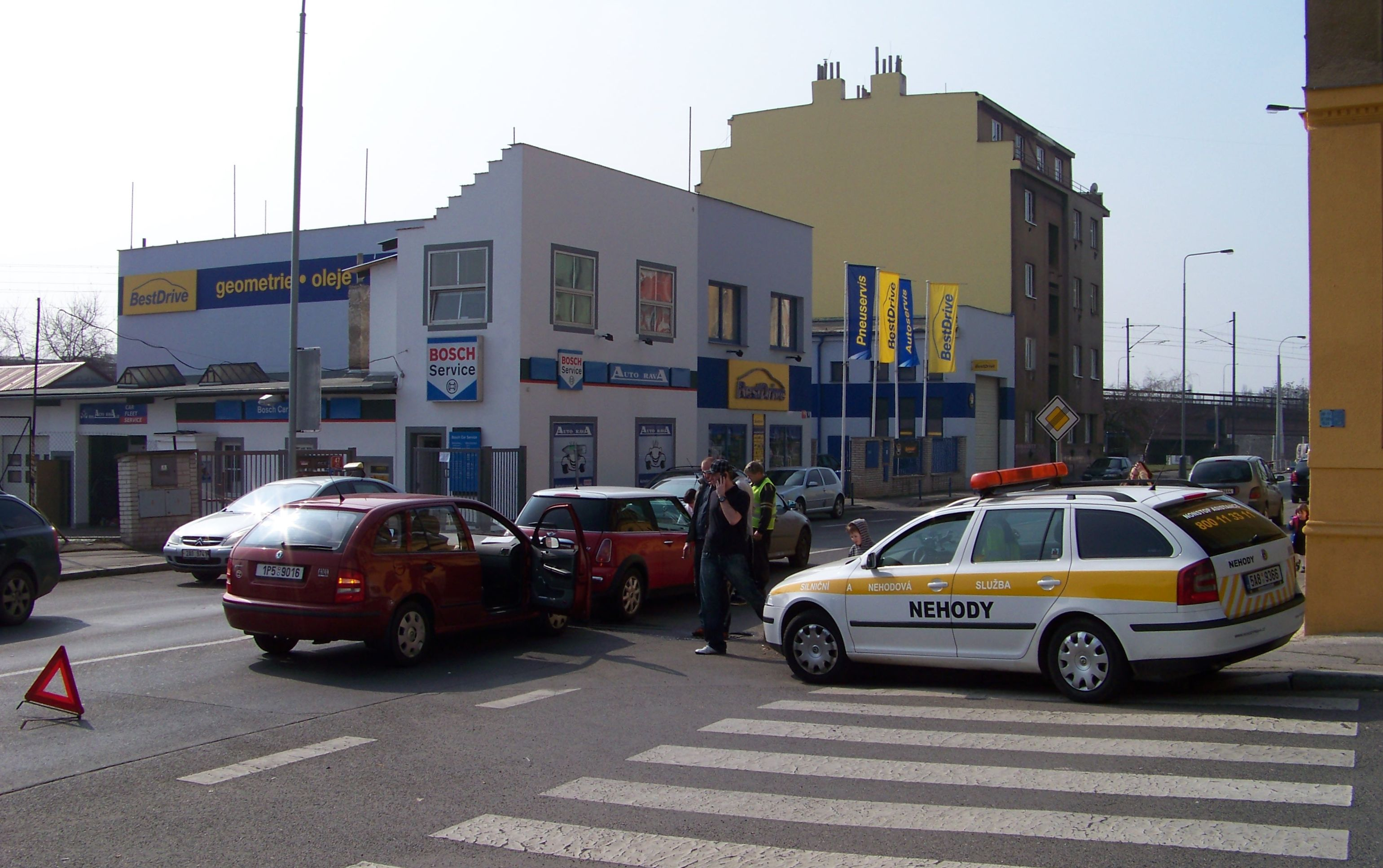 Prague-Libeň, the Czech Republic. Prosecká street, a road accident.